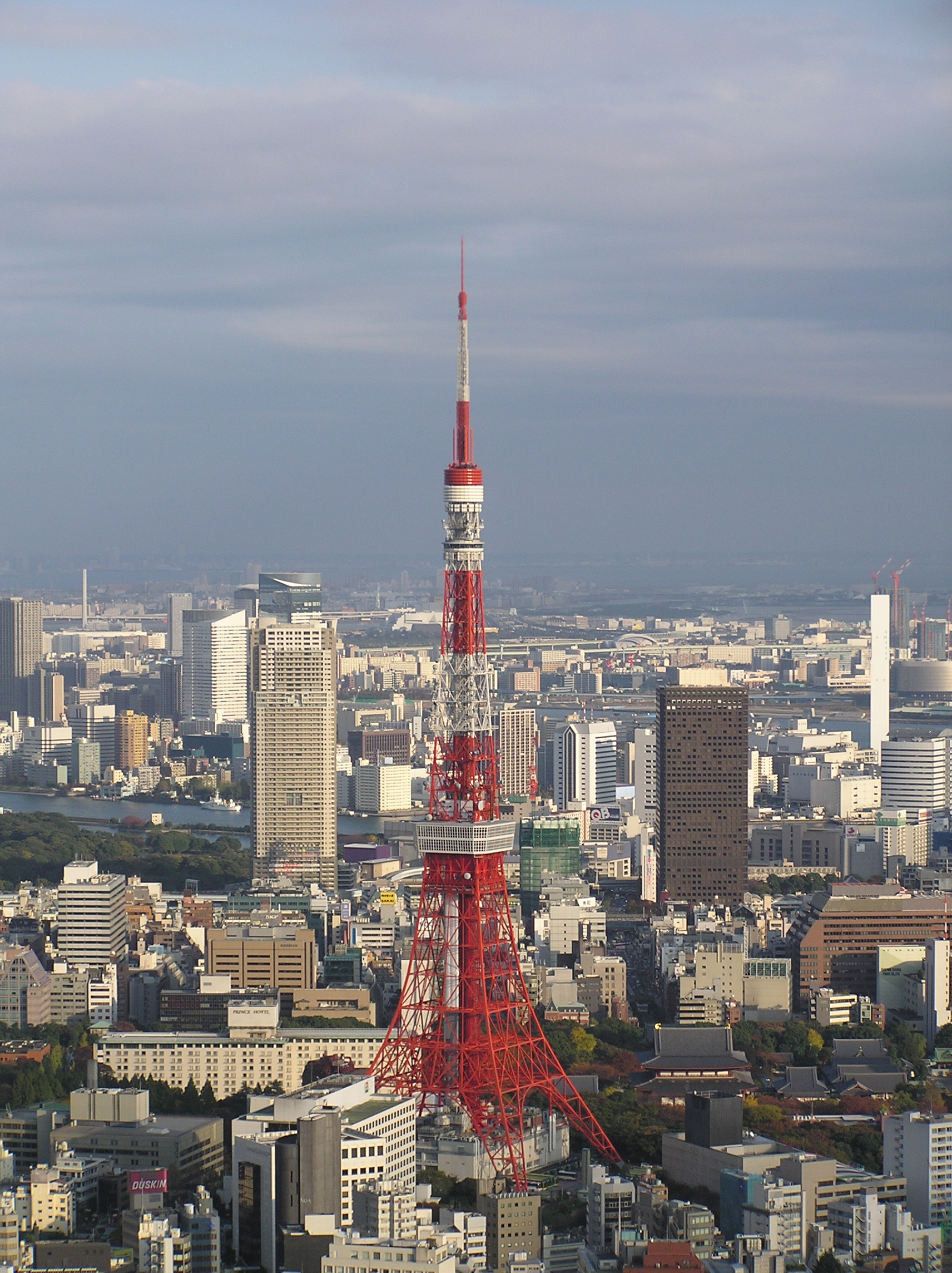 Tokyo Tower from Roppongi